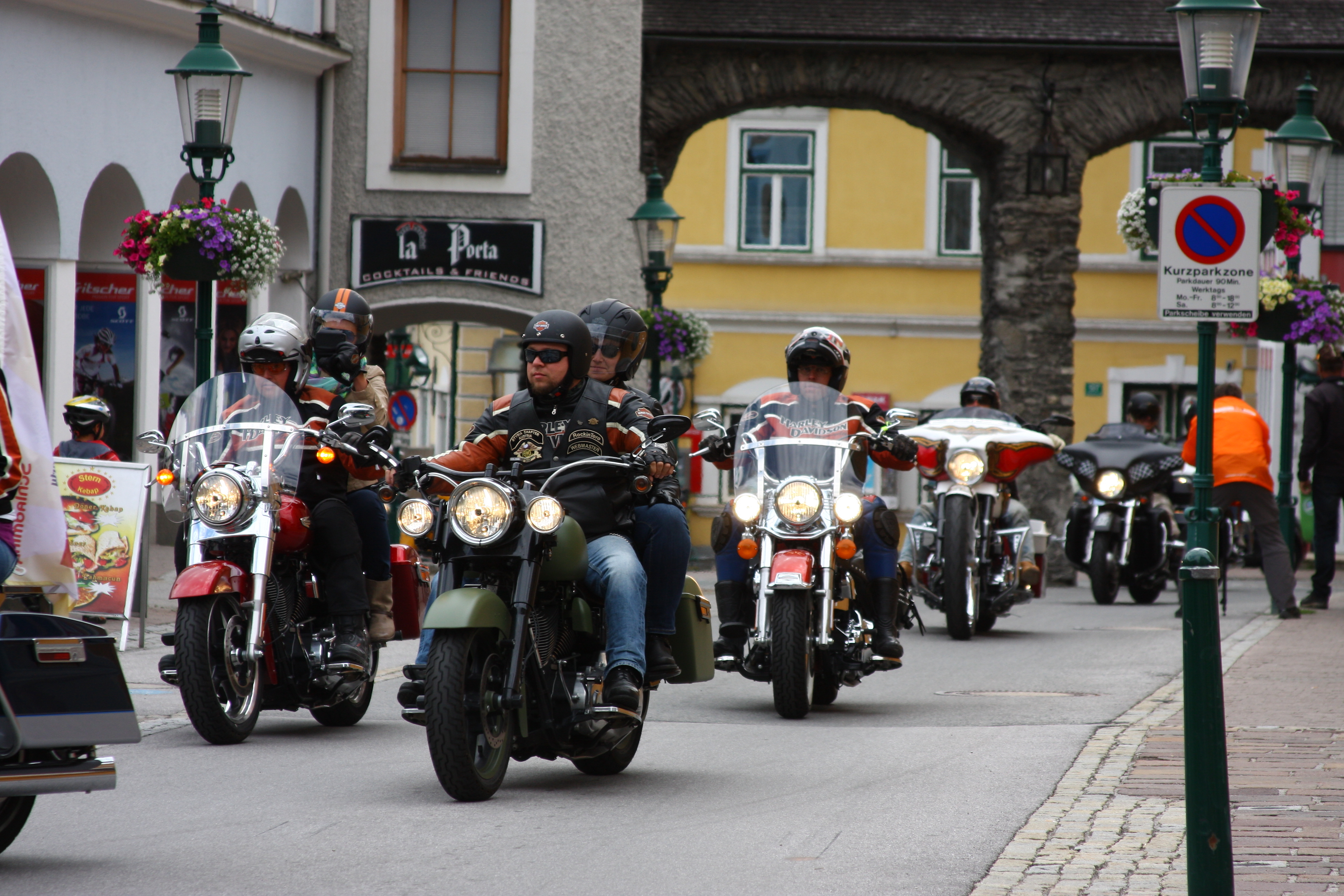 Rock the Roof 2013, Schladming, Styria, Austria